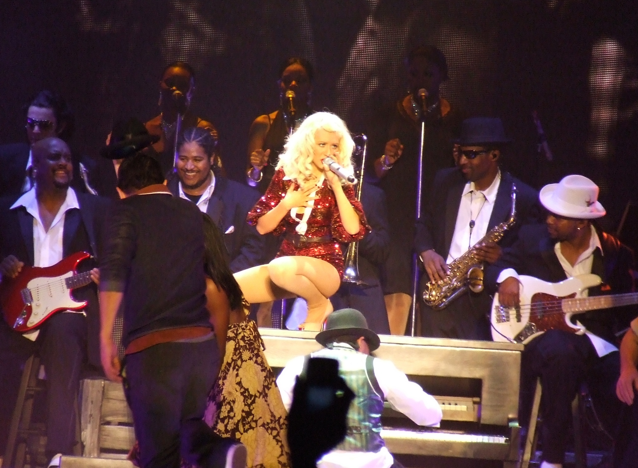 Christina Aguilera during the performing of "Makes Me Wanna Pray"